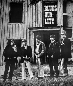 Blues Quality, a blues band from Örebro, Sweden